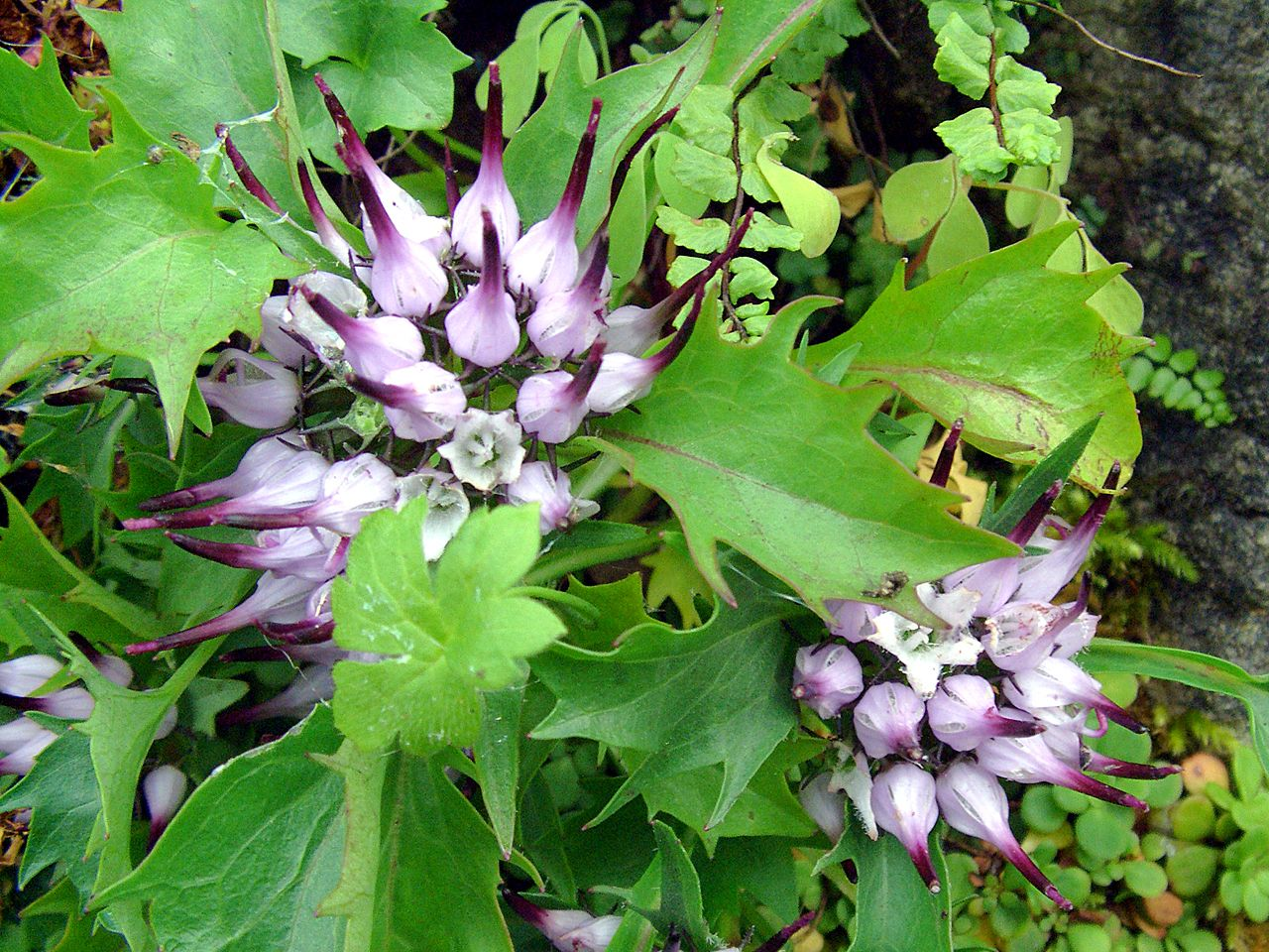 Physoplexis comosa - flowers